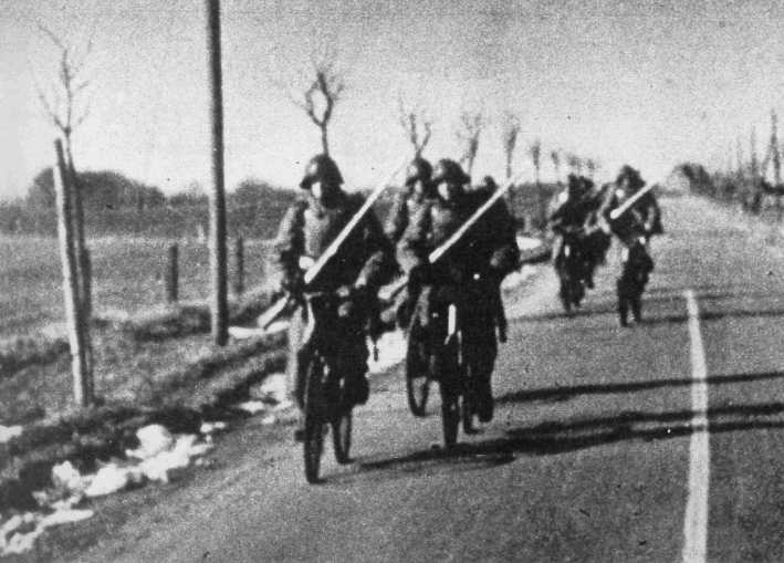 Danish soldiers on bicycles, April 9, 1940